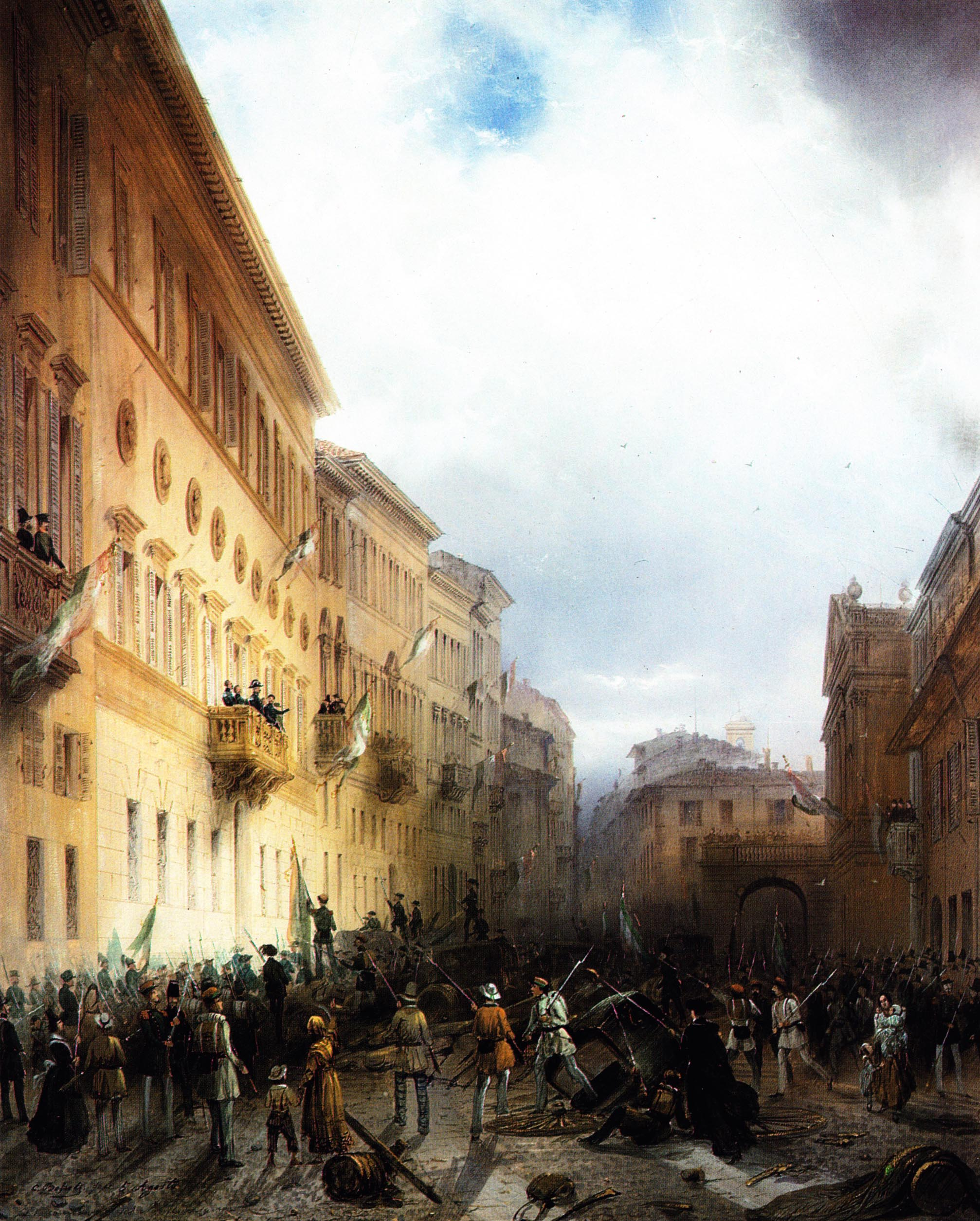 King of Sardinia Carlo Alberto speaks in Milan after the retreat of 1848 during first italian indipendence war.